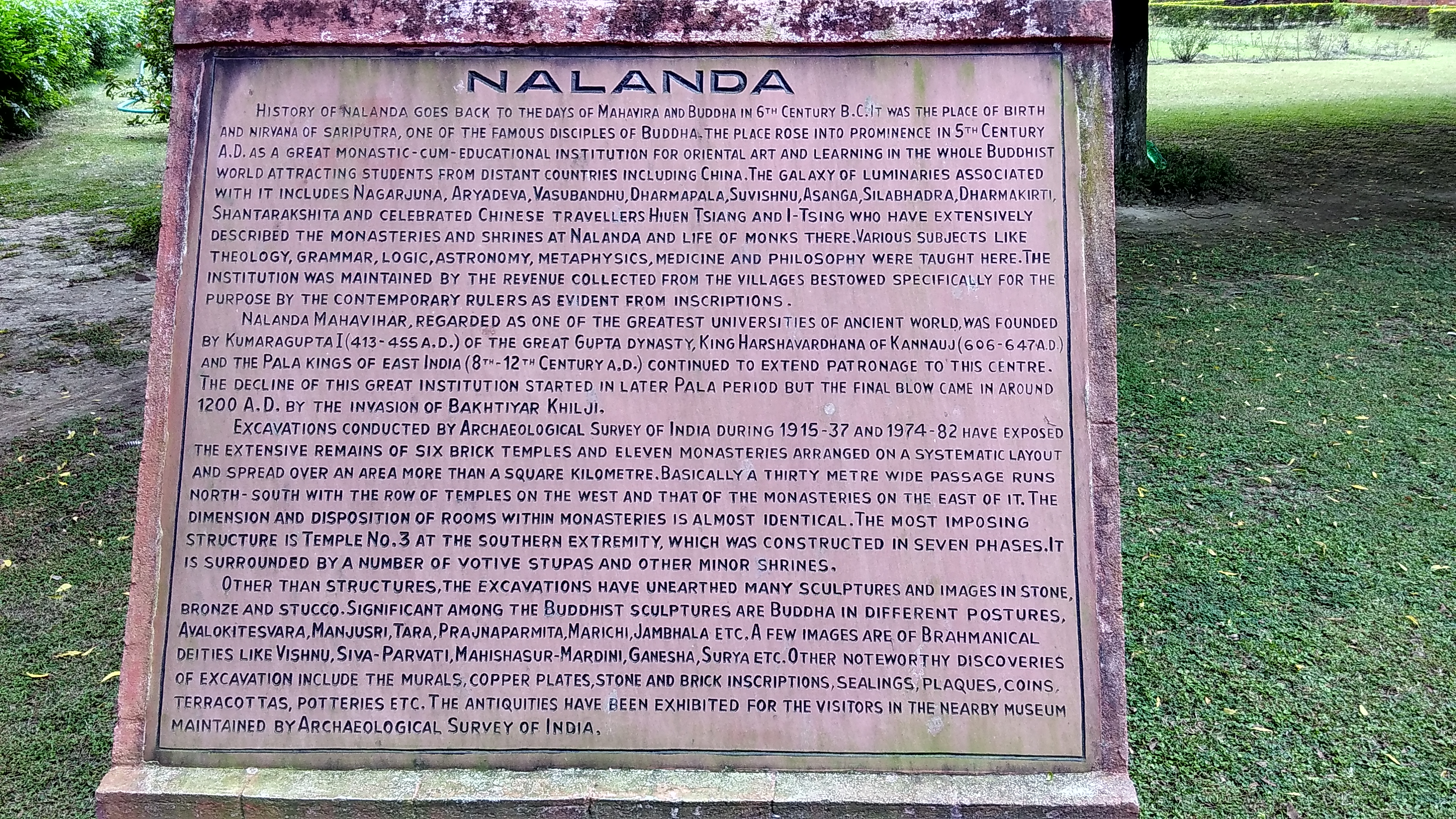 Information Board